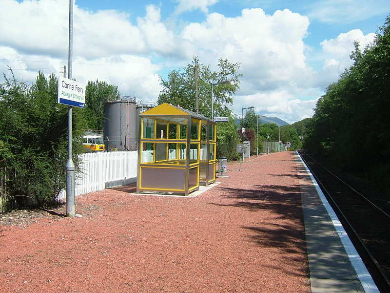 Connel Ferry station 15 July 2007. Original digital image. Signalhead 18:49, 17 July 2007 (UTC)